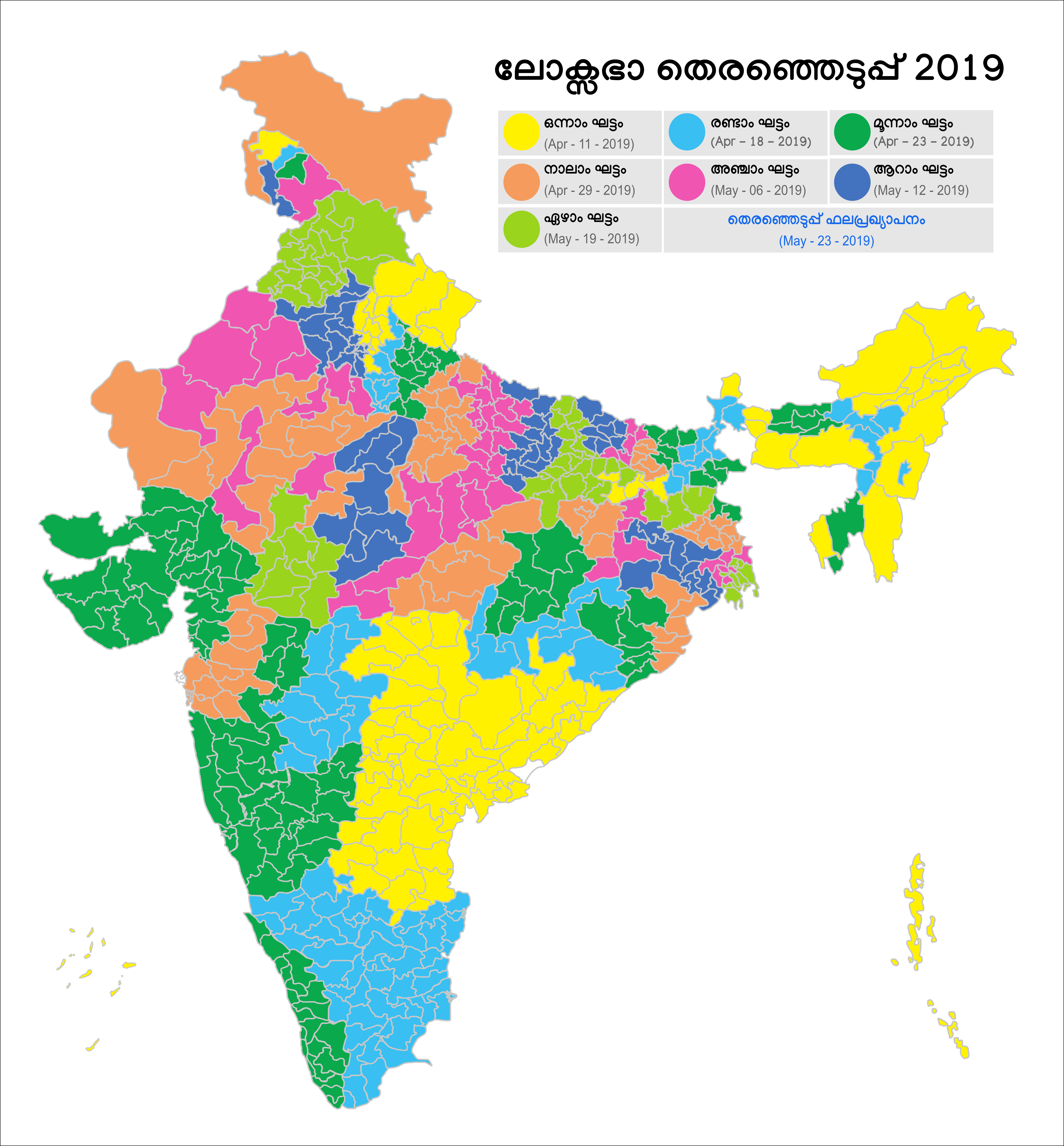 Lok Sabha Election 2019 in India, image showing the election dates and constituency-wise mapping of India. The seven phases of election will cover 543 constituencies. The results of the Lok Sabha election 2019 will be announced on May 23, 2019.